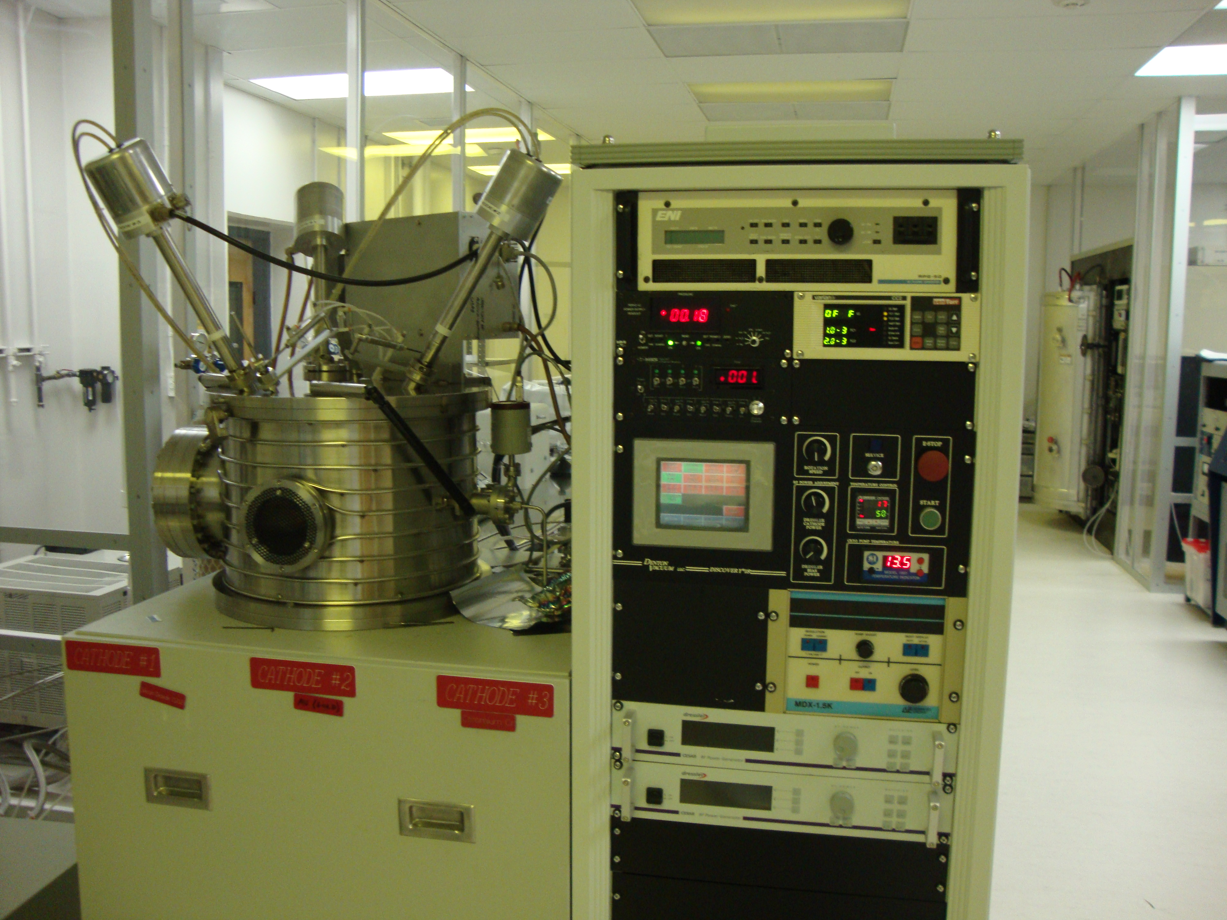 A Denton Vacuum sputtering system in the labs of University of Alabama in Huntsville